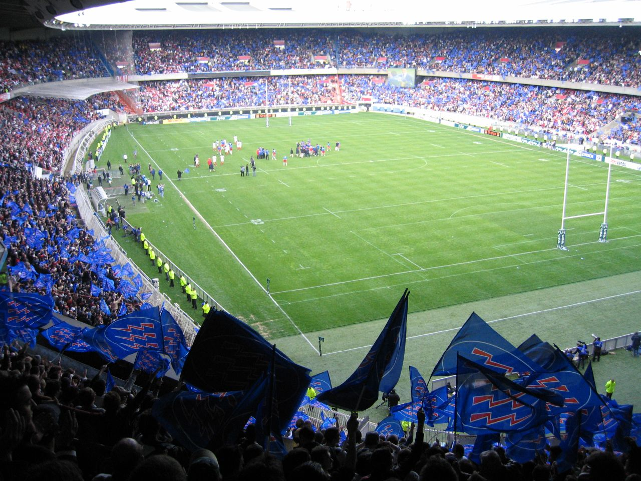 Summary From Flickr Uploaded with this license